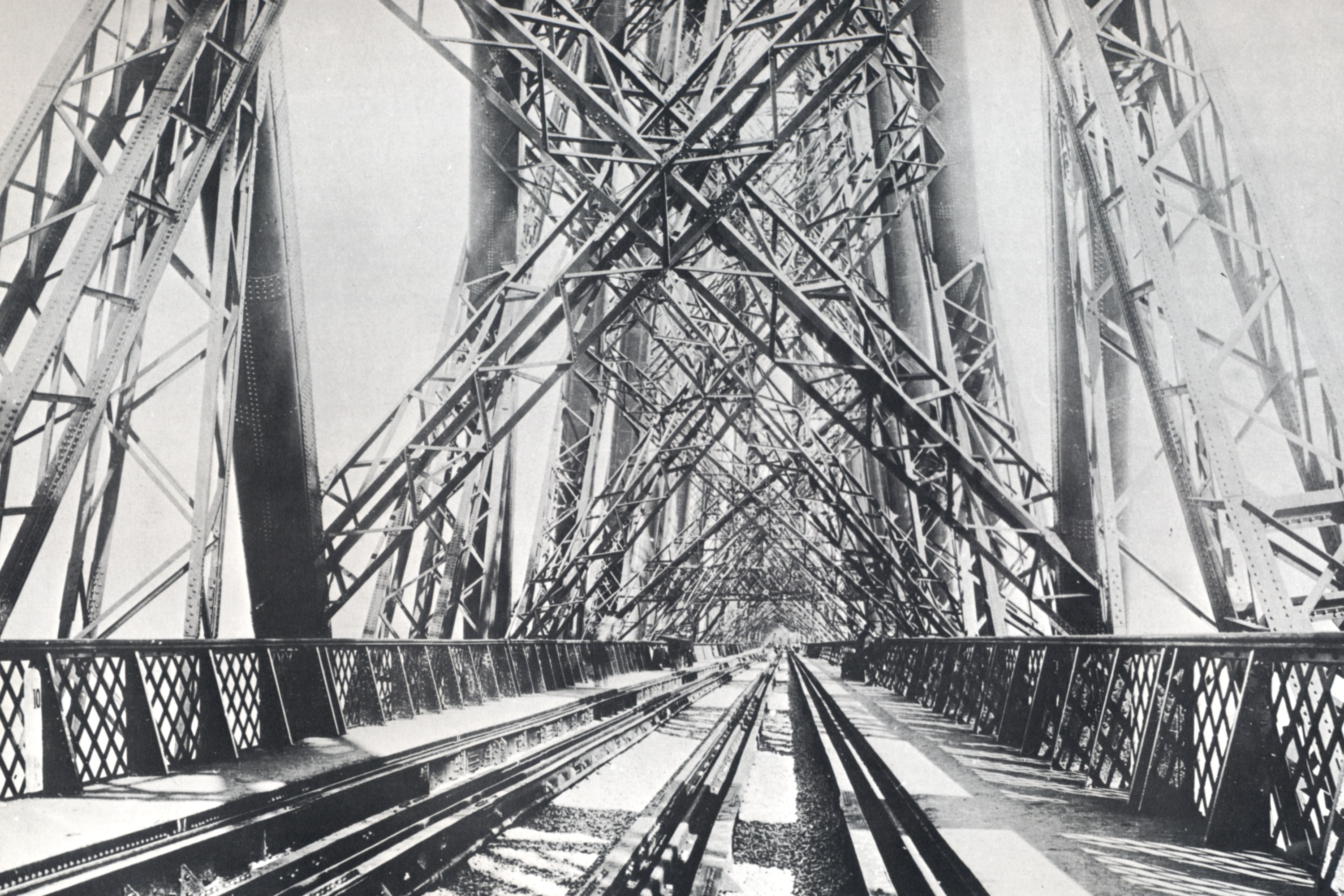 The Forth Bridge after completion in 1890